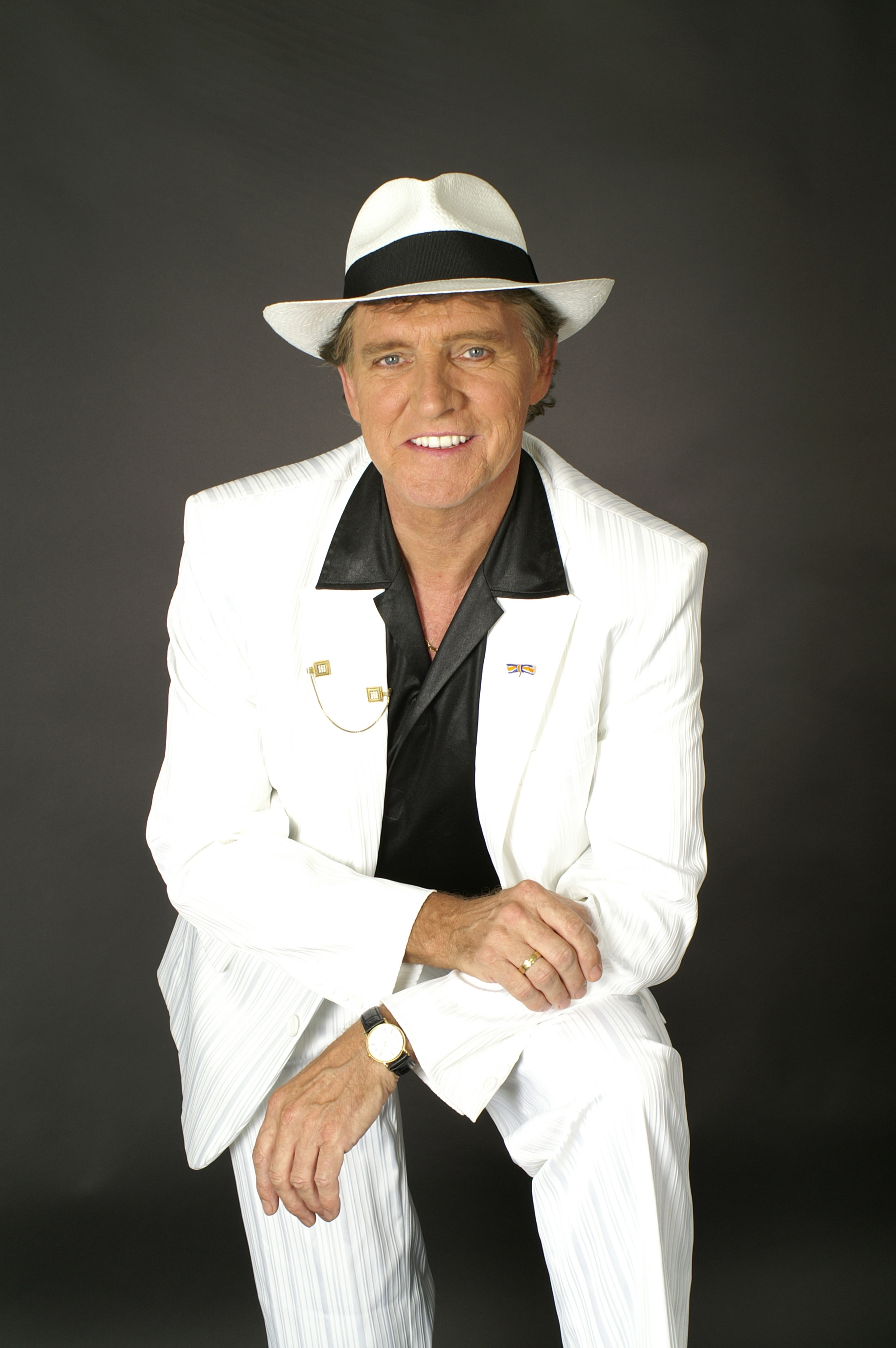 Jacques Herb, pseudonym of Jack van Herp (Rotterdam, May 28, 1946) is a Dutch singer.